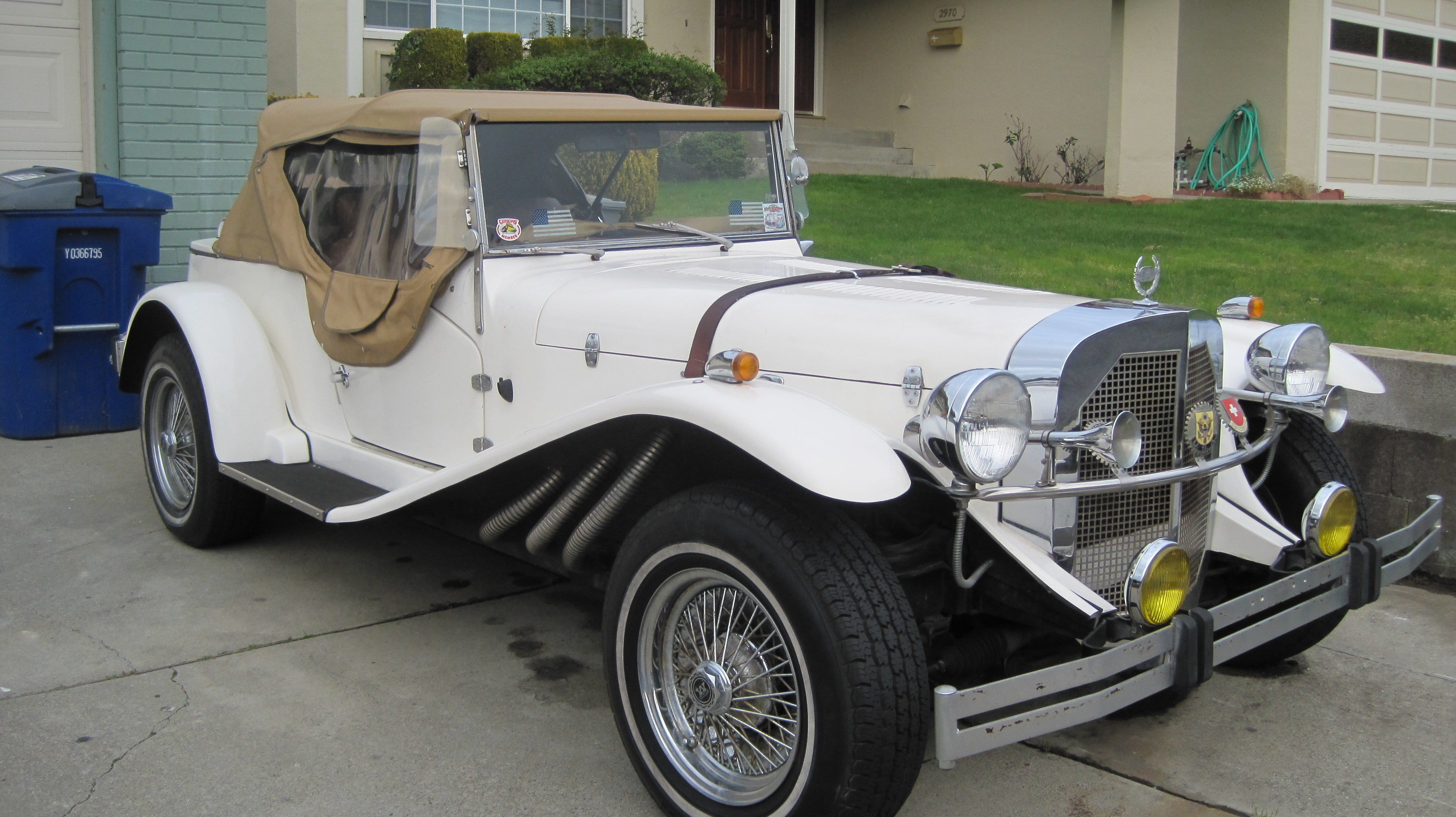 A Mercedes Gazelle kit car.